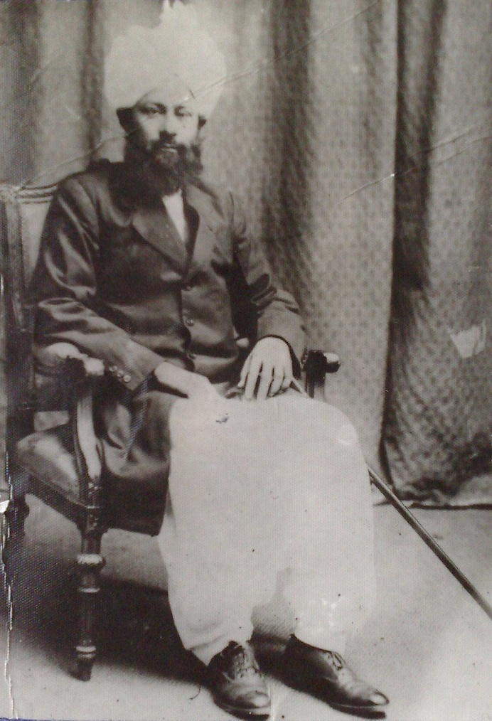 Al-Hajj Mirza Bashir-ud-Din Mahmood Ahmad, photograph taken in 1924, before leaving for a journey to the Middle East and Europe.